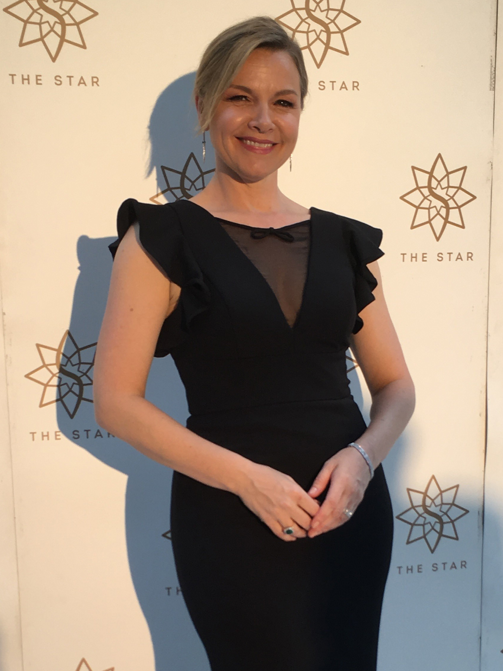 Australian singer and actor Justine Clarke, photographed at the 2018 ARIA Awards